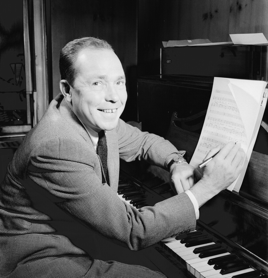 Johnny Mercer, New York, N.Y., between 1946 and 1948 (Photograph by William P. Gottlieb)